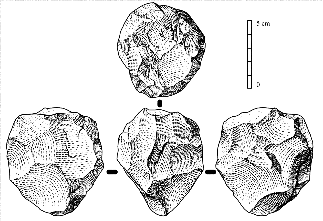 Acheulean polyhedron in quartzite that proceeds from a superficial site in the Valladolid province (Spain), in the valley of Douro river.